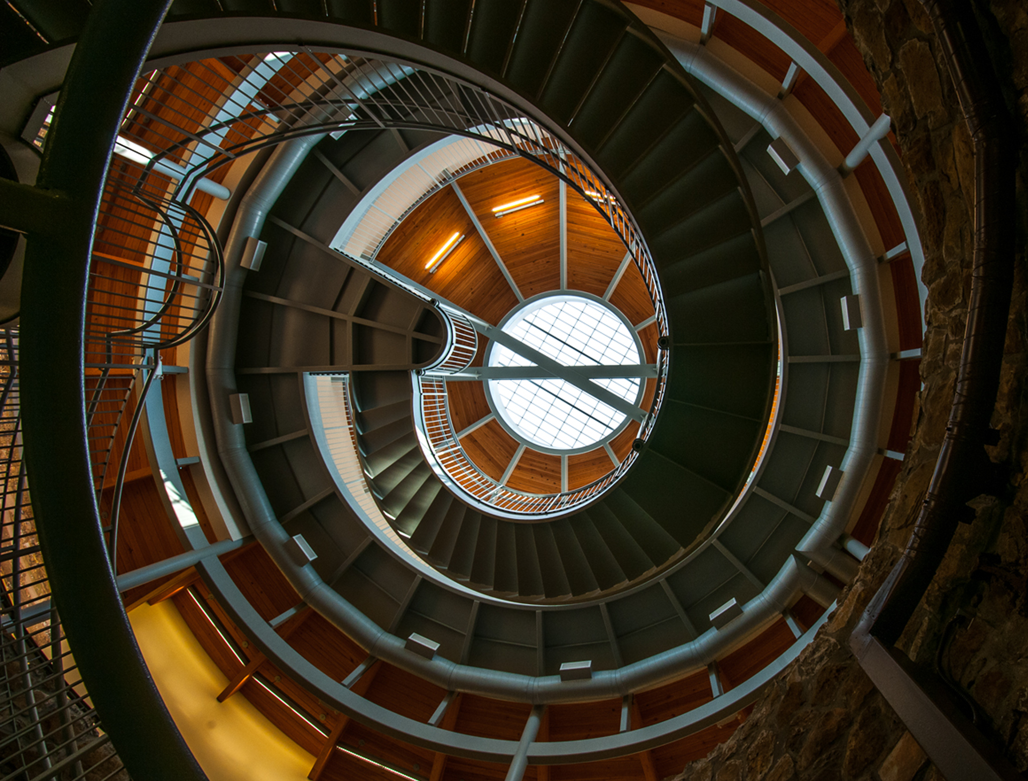 Big Well Stairs